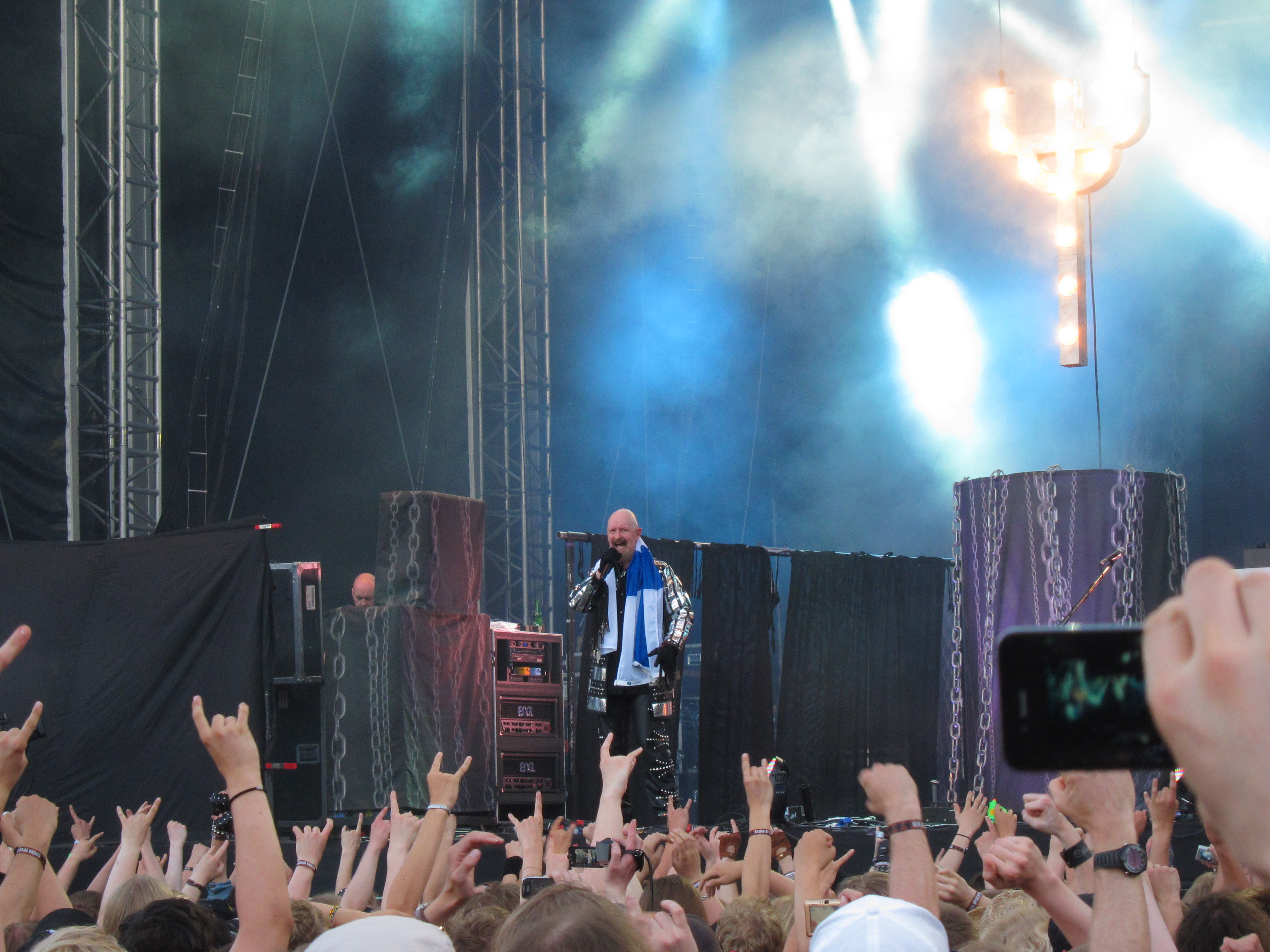 Judas Priest performing at the Sauna Open Air Metal Festival in Tampere, Finland.